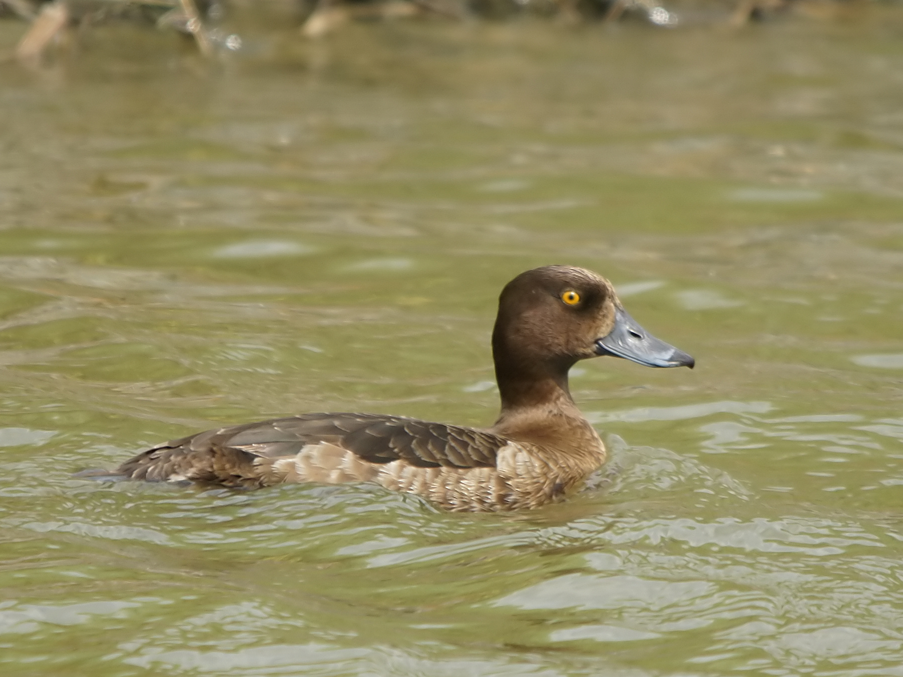 Female Tufted Duck at Uitkerkse Polders, Belgium